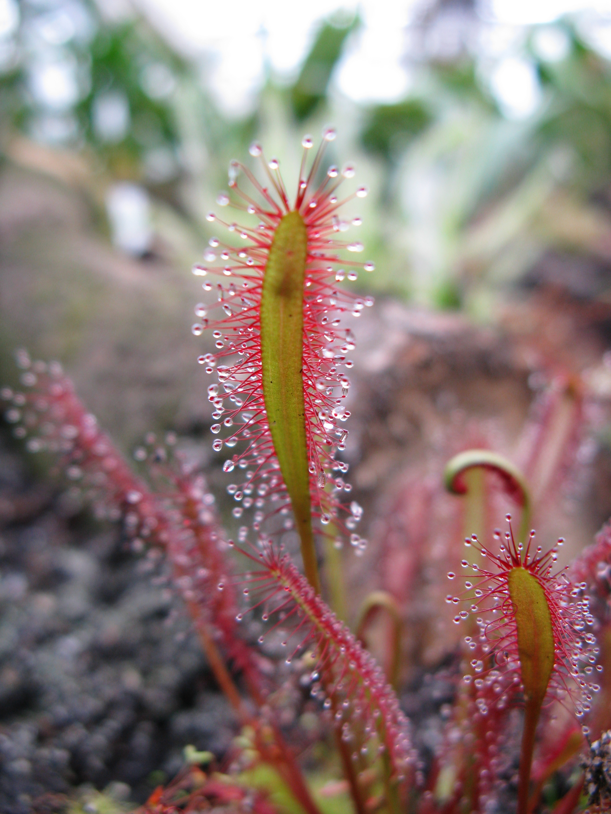 sundew (Drosera capensis)